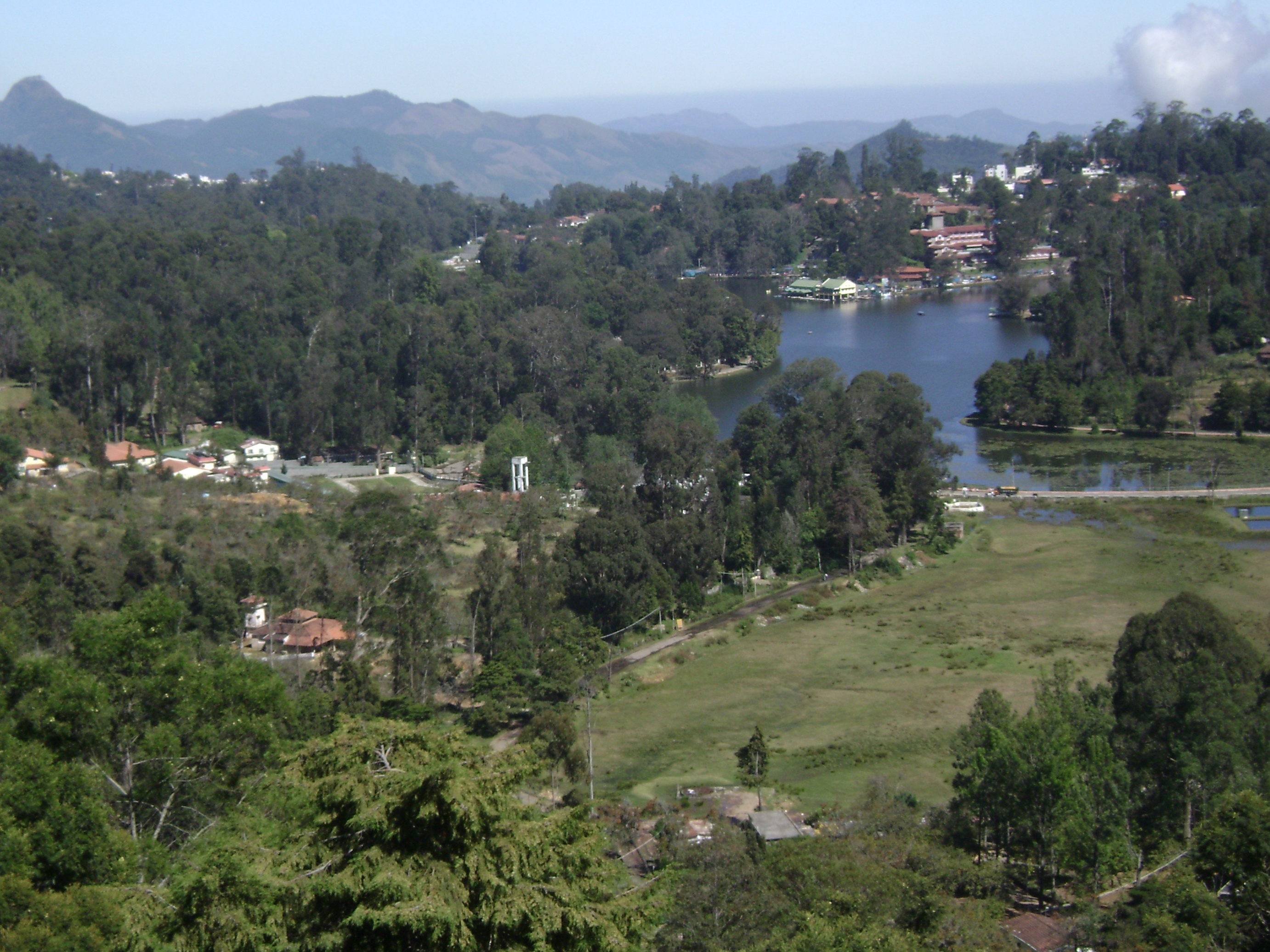 Kodialkanal lake